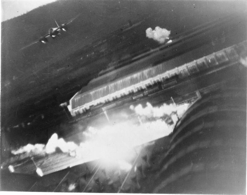 Low-level oblique aerial taken during a dusk attack on the railway workshops at Namur, Belgium, by de Havilland Mosquito B Mark IVs of No. 105 Squadron RAF. DZ519 'GB-U', flown by Pilot Officer R Massie (pilot) and Sergeant G Lister (navigator), flys over the target with bomb doors open and bombs falling, just after successfully striking the roof of the carriage and wagon repair shops (top right).